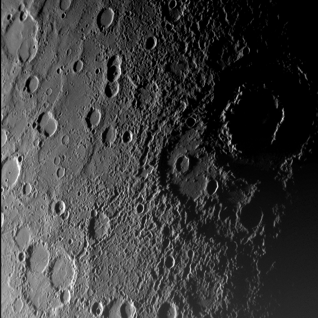 As MESSENGER approached Mercury on January 14, 2008, the spacecraft’s Narrow-Angle Camera on the Mercury Dual Imaging System (MDIS) instrument captured this view of the planet’s rugged, cratered landscape illuminated obliquely by the Sun. The large, shadow-filled, double ringed crater to the upper right was glimpsed by Mariner 10 more than three decades ago and named Vivaldi, after the Italian composer. Its outer ring has a diameter of about 200 kilometers (about 125 miles). MESSENGER’s modern camera has revealed detail that was not well seen by Mariner 10, including the broad ancient depression overlapped by the lower-left part of the Vivaldi crater. The MESSENGER science team is in the process of evaluating later images snapped from even closer range showing features on the side of Mercury never seen by Mariner 10. It is already clear that MESSENGER’s superior camera will tell us much that could not be resolved even on the side of Mercury viewed by Mariner’s vidicon camera in the mid-1970s. This MESSENGER image was taken from a distance of about18,000 kilometers (11,000 miles), about 56 minutes before the spacecraft's closest encounter with Mercury. It shows a region roughly 500 kilometers (300 miles) across, and craters as small as 1 kilometer (0.6 mile) can be seen in this image.